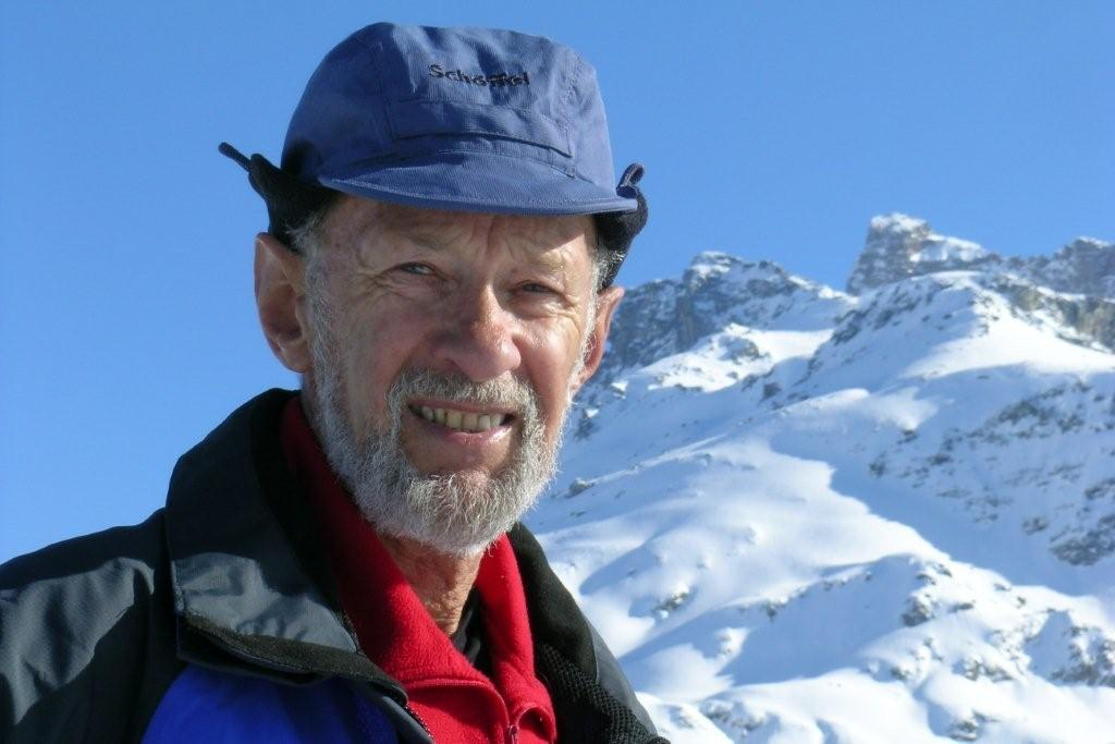 Swiss Painter and Climber Albert Schmidt